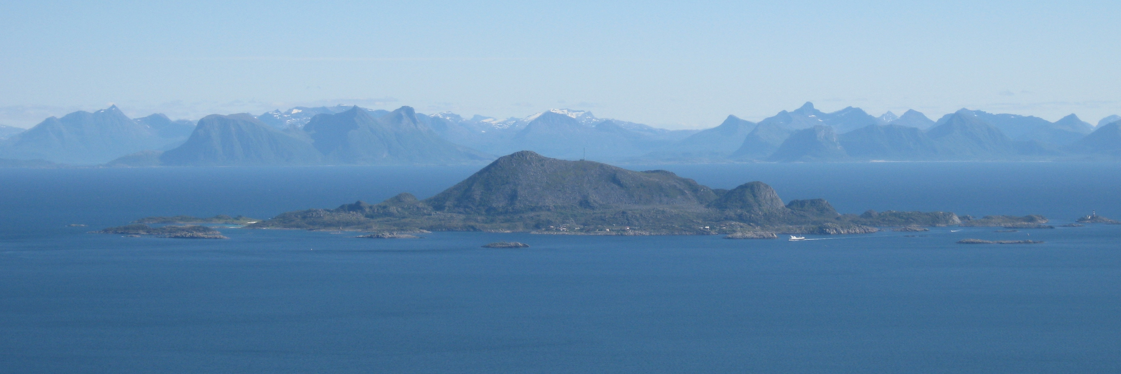 The island Skrova in Vågan, Nordland, Norway, seen from Tjeldbergtind near Svolvær, with the mainland in the backgroundNorsk nynorsk: Øya Skrova i Vågan kommune i Nordland med fastlandet i bakgrunnen, sett frå Tjeldbergtind nær Svolvær.